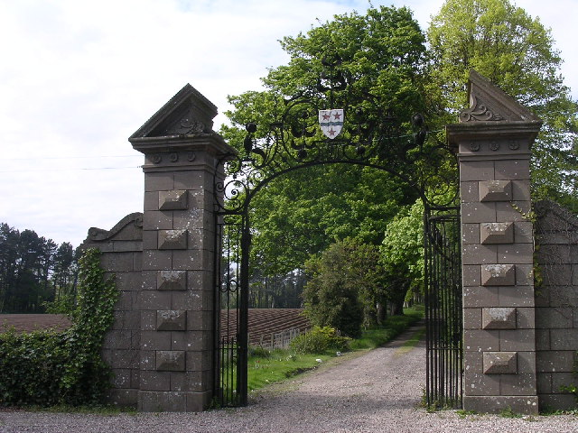 Gates to Pitkerro House. Pitkerro House is a large estate house north of Broughty Ferry, Dundee